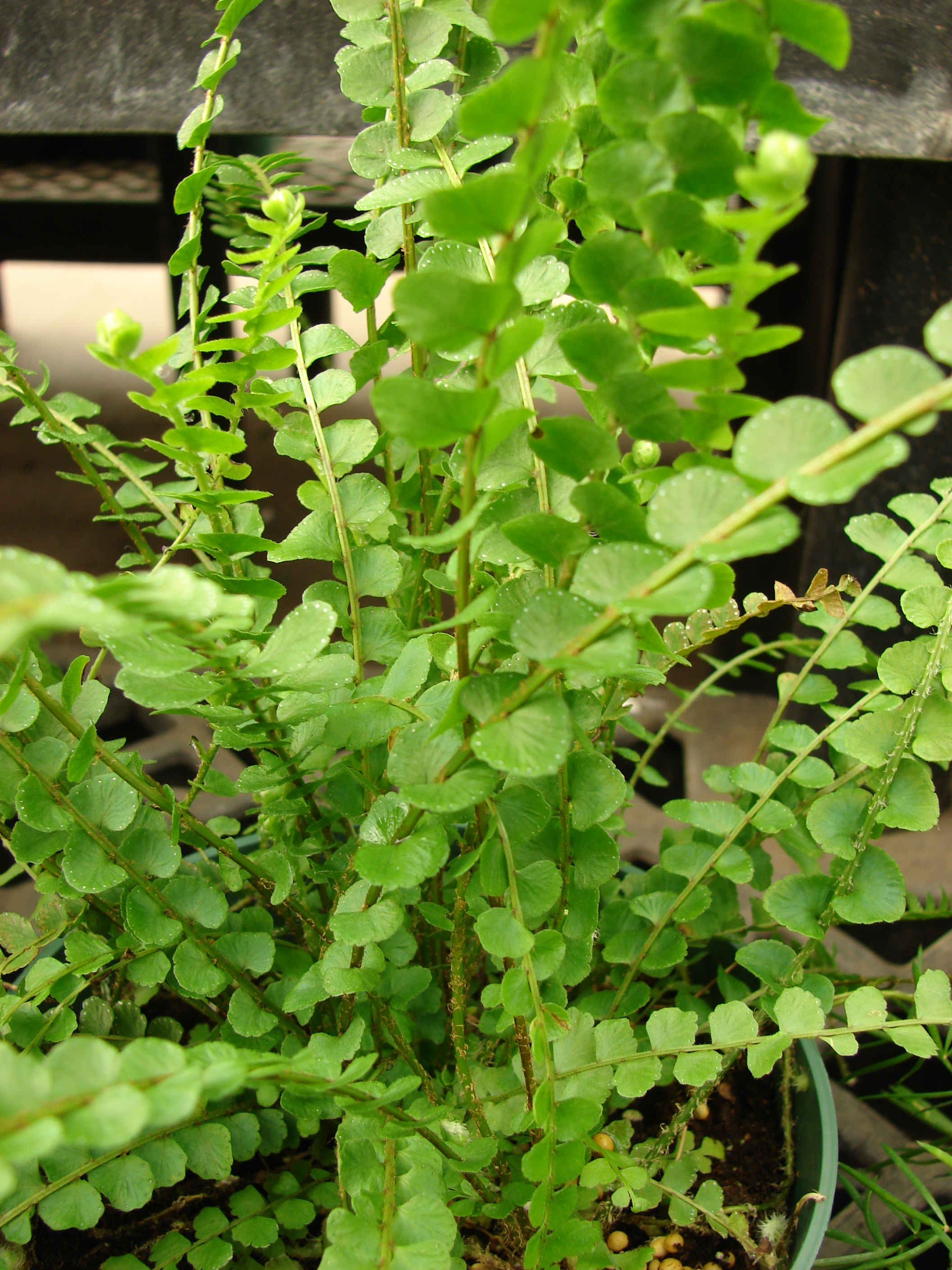 Nephrolepis cordifolia (Duffii habit). Location: Maui, Walmart Kahului